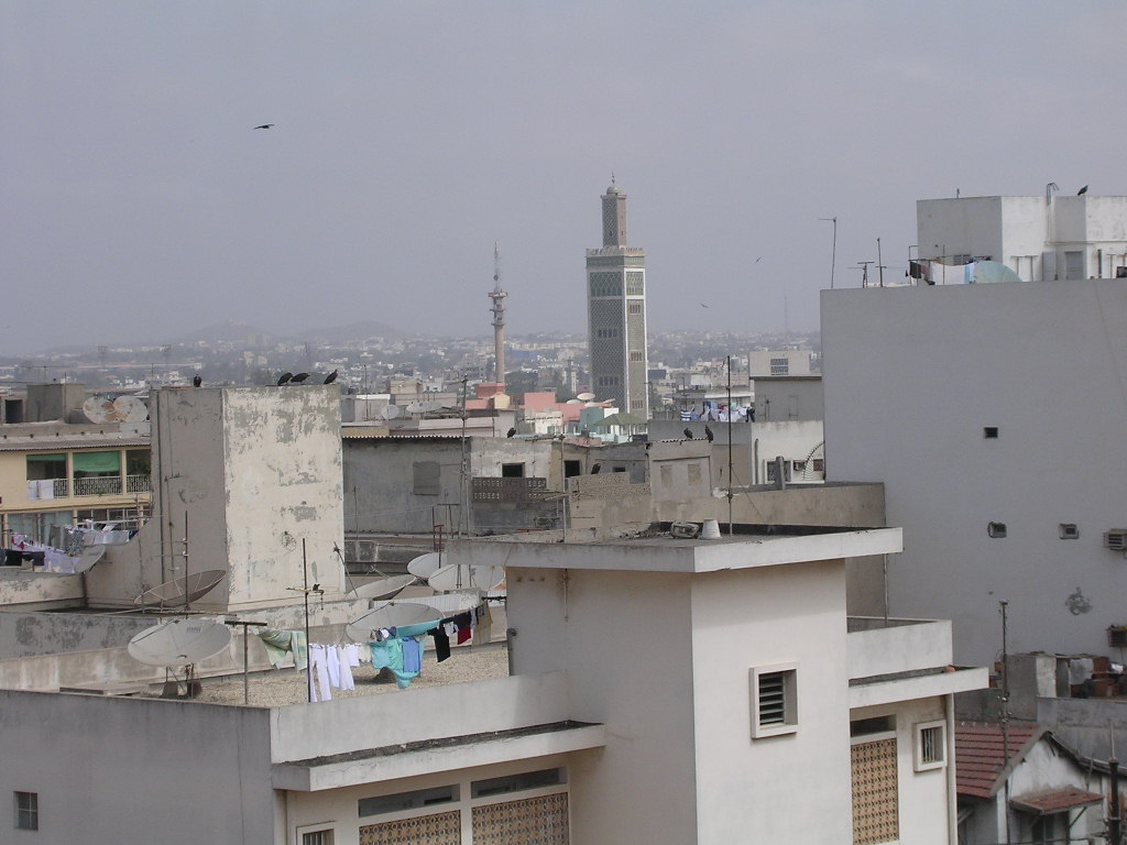 View of Dakar, Senegal